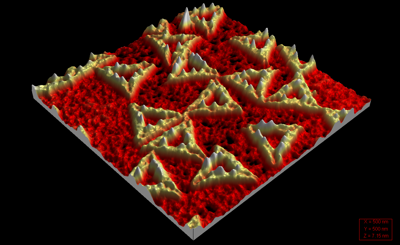 Scanning Probe Microscopy image of triangular DNA origami The DNA origami was cast onto a silicon wafer surface and dried. (DNA Origami consists of artificial segments of DNA which can be designed to assume arbitrary shapes) sample courtesy of Prof. Ilko Bald, University Potsdam image acquisition using Keysight Technologies AFM 5500